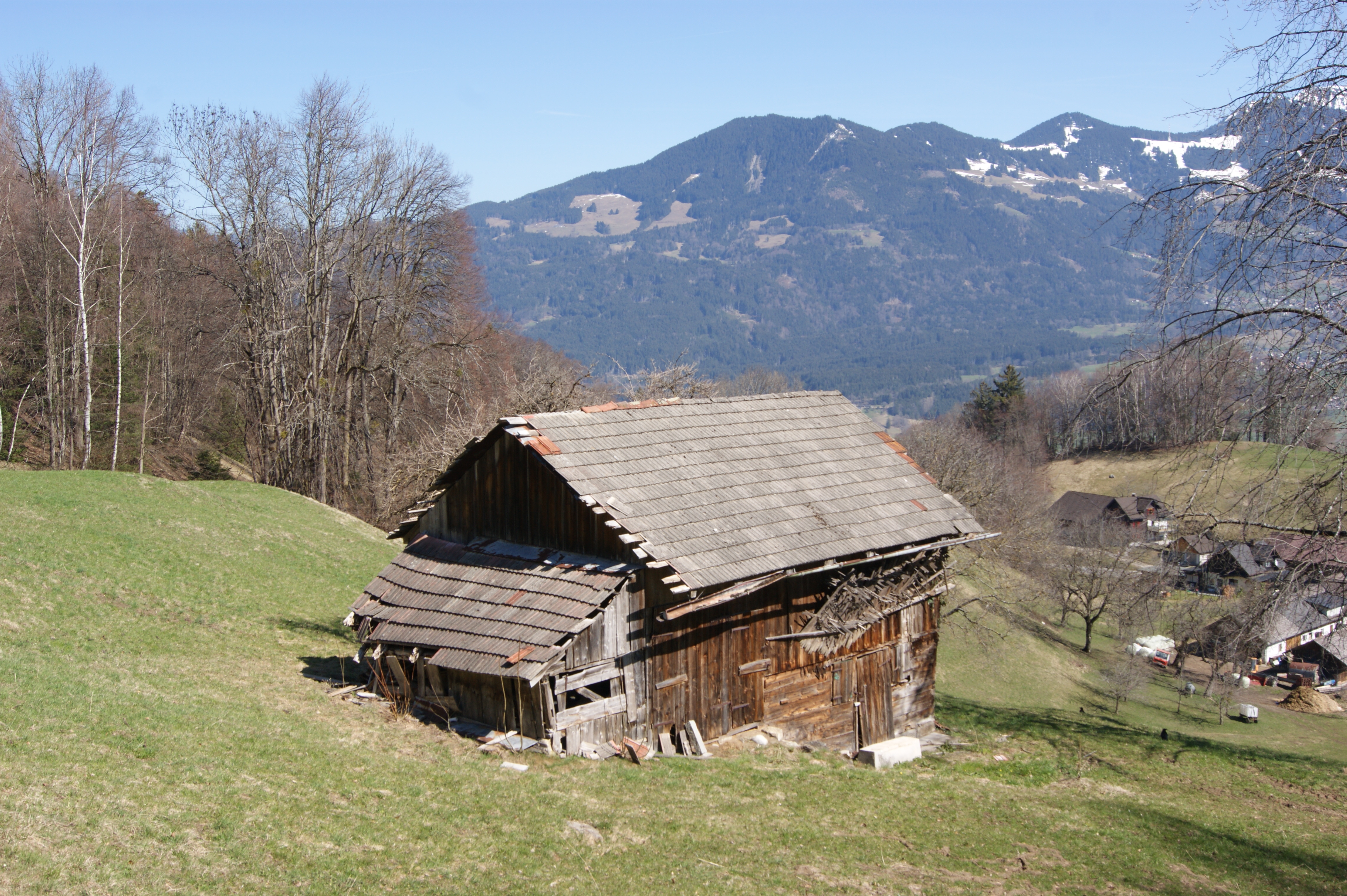 Gampelün, a part of Frastanz in Vorarlberg, Austria. Alter Heustadl an der Gurtiserstraße und unten ein teil von Gampelün.